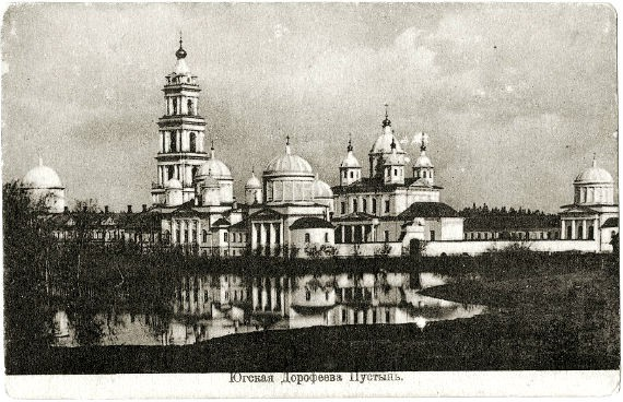 A 19th-century photo of the Yuga Monastery near Rybinsk, now submerged beneath the Rybinsk Reservoir